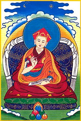 3rd Dzogchen Rinpoche, Ngedon Tendzin Zangpo (1759–1792), Nyingma incarnation lama of Dzogchen Monastery, Tibet